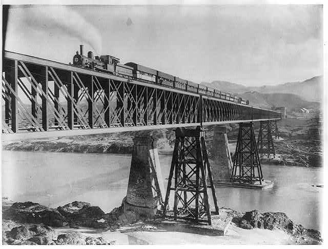 Title: Fortified Northwestern Railway bridge over the Indus at Attock Physical description: 1 photographic print : gelatin silver ; 8 x 10 in. or smaller. Notes: Forms part of: Jackson, William Henry, 1843-1942. World's Transportation Commission photograph collection (Library of Congress).; Published as halftone in Harper's Weekly, 1897 Sept. 4.; Gift; Colorado Historical Society; 1949.; Photographic print made by LC from Jackson's vintage film negative.